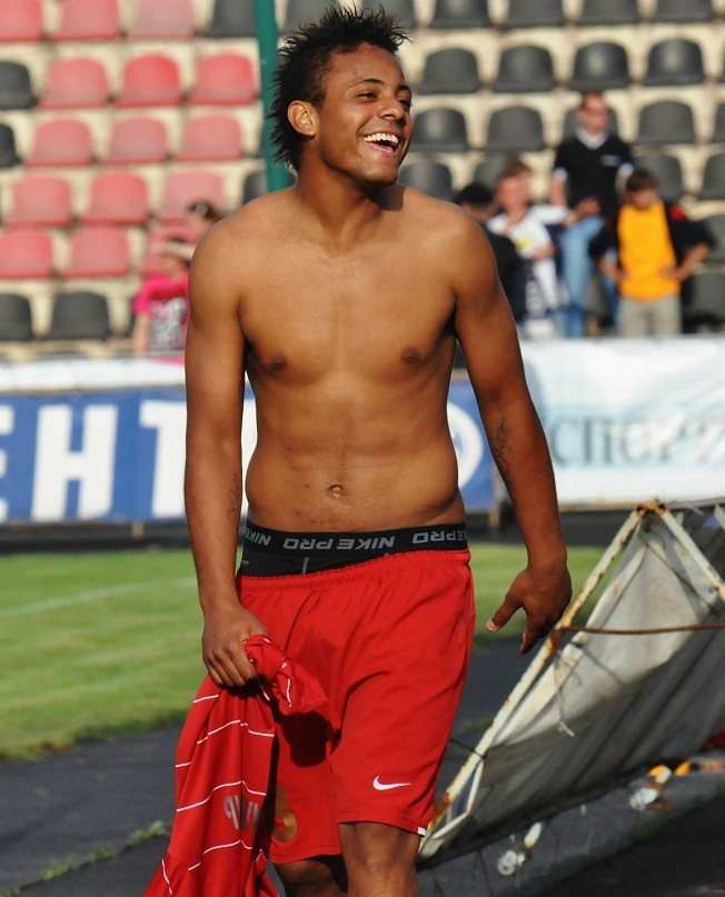 Jeferson Douglas dos Santos Batista, Brasilian footballer, after the game for FC Metalurh Zaporizhya